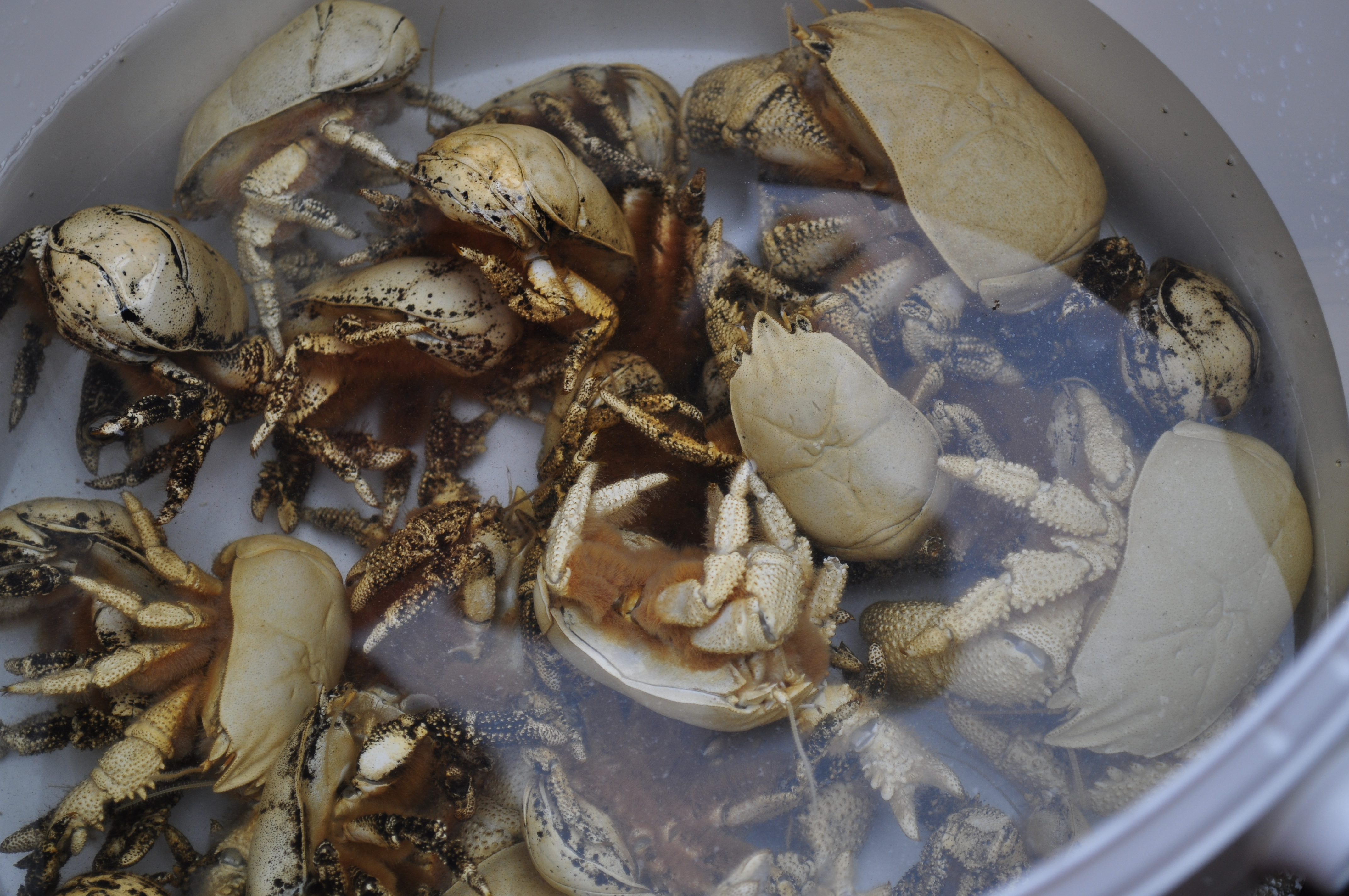 A bucket full of Hoff crabs collected from the East Scotia Ridge